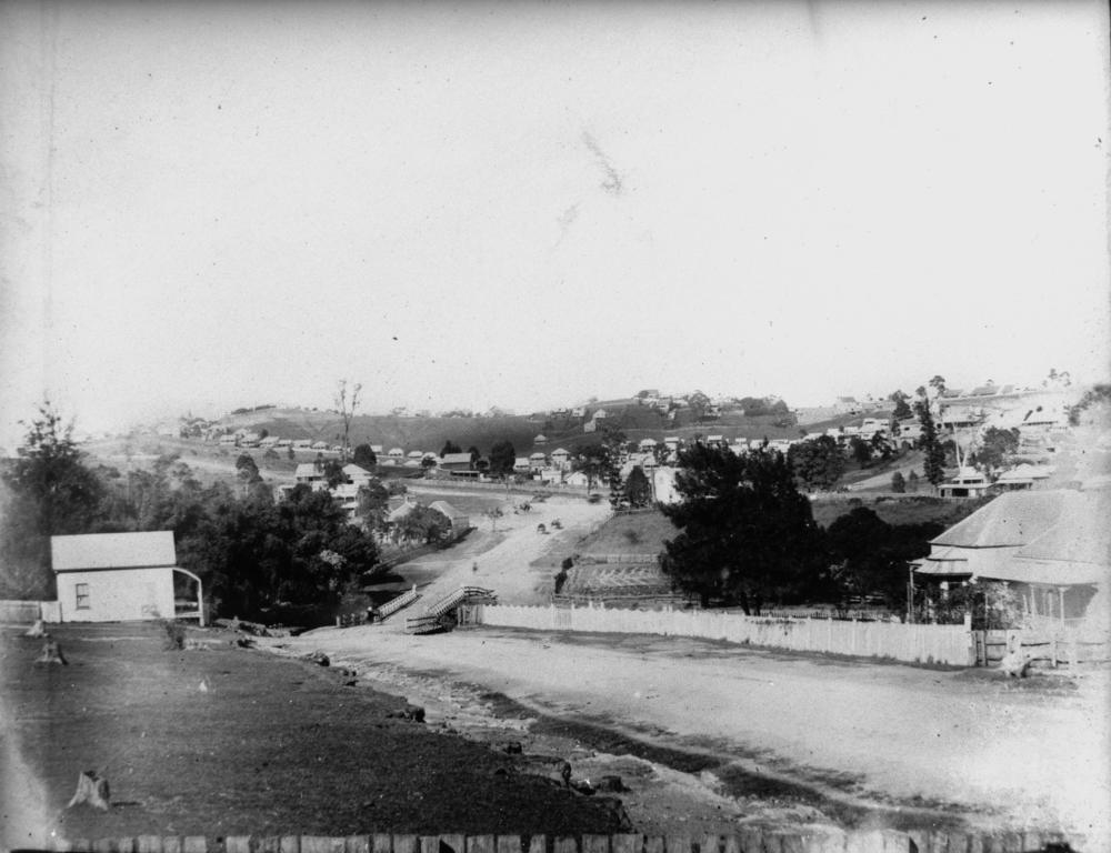 Kelvin Grove, ca. 1890. Panoramic view of Kelvin Grove, featuring Kelvin Grove Road.